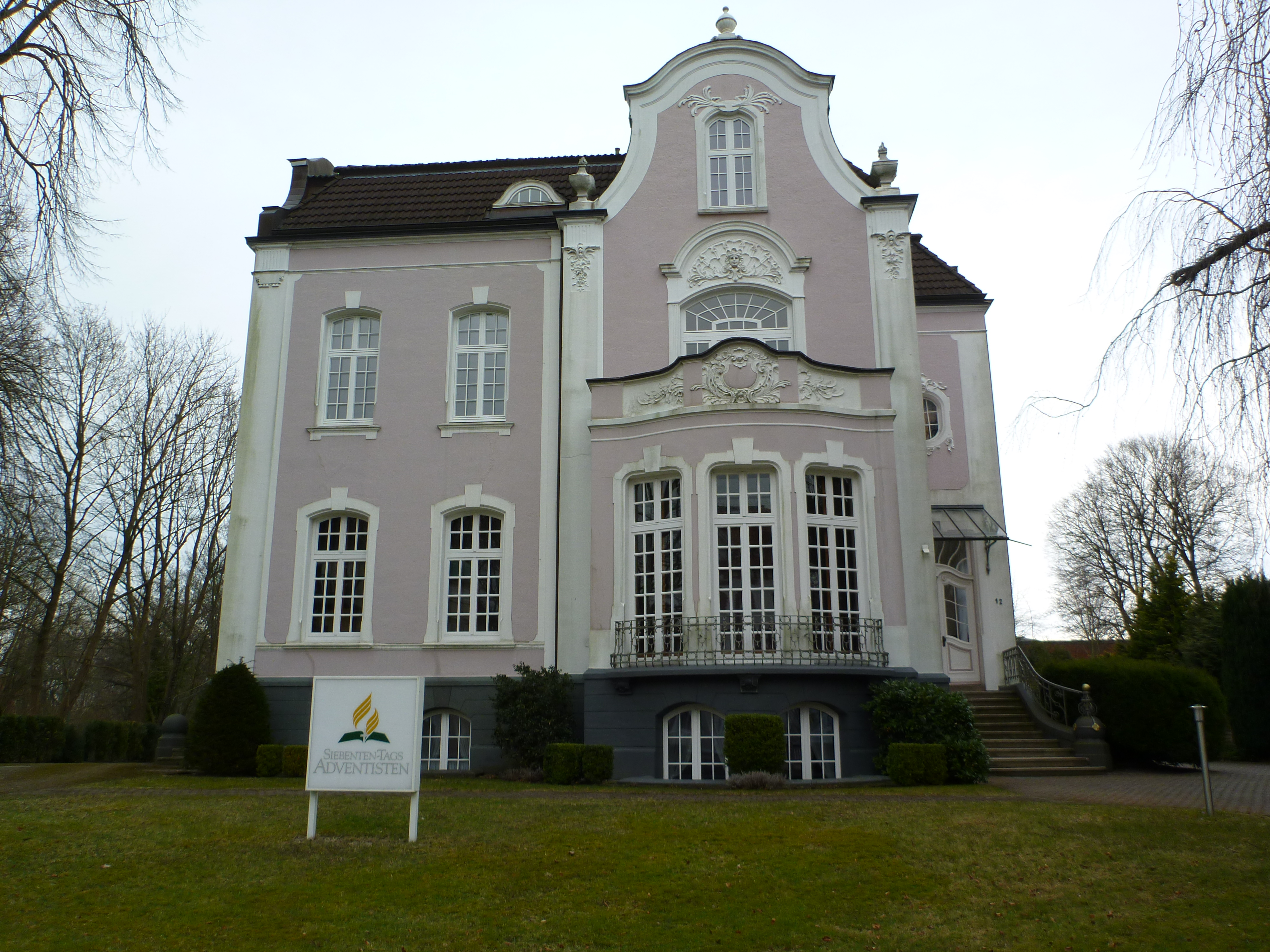 Villa Springe, Marienstraße 12, Cultural heritage monuments in Neumünster